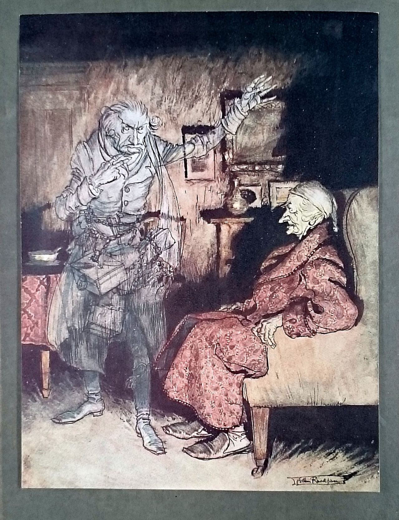 Frontispiece illustration by Arthur Rackham from "A Christmas Carol" by Charles Dickens. London: William Heinemann, 1915.